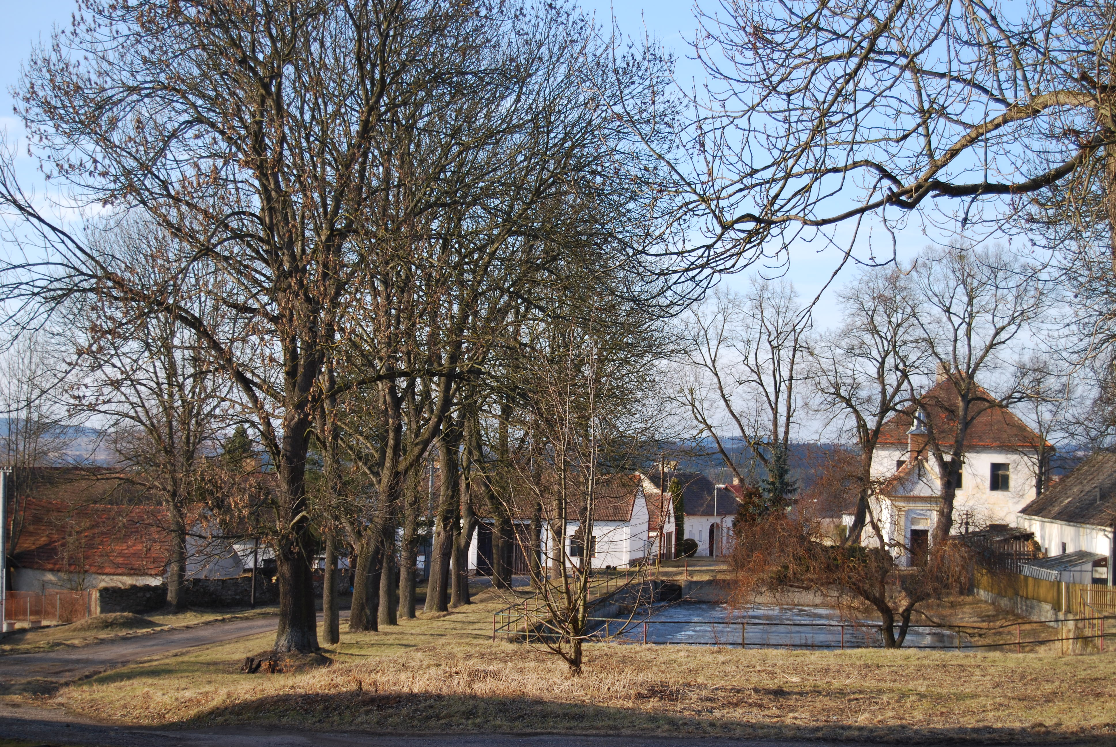 Jemnice, a part of Osek, a village in Strakonice District, Czech Republic, view of the common with a chapel.